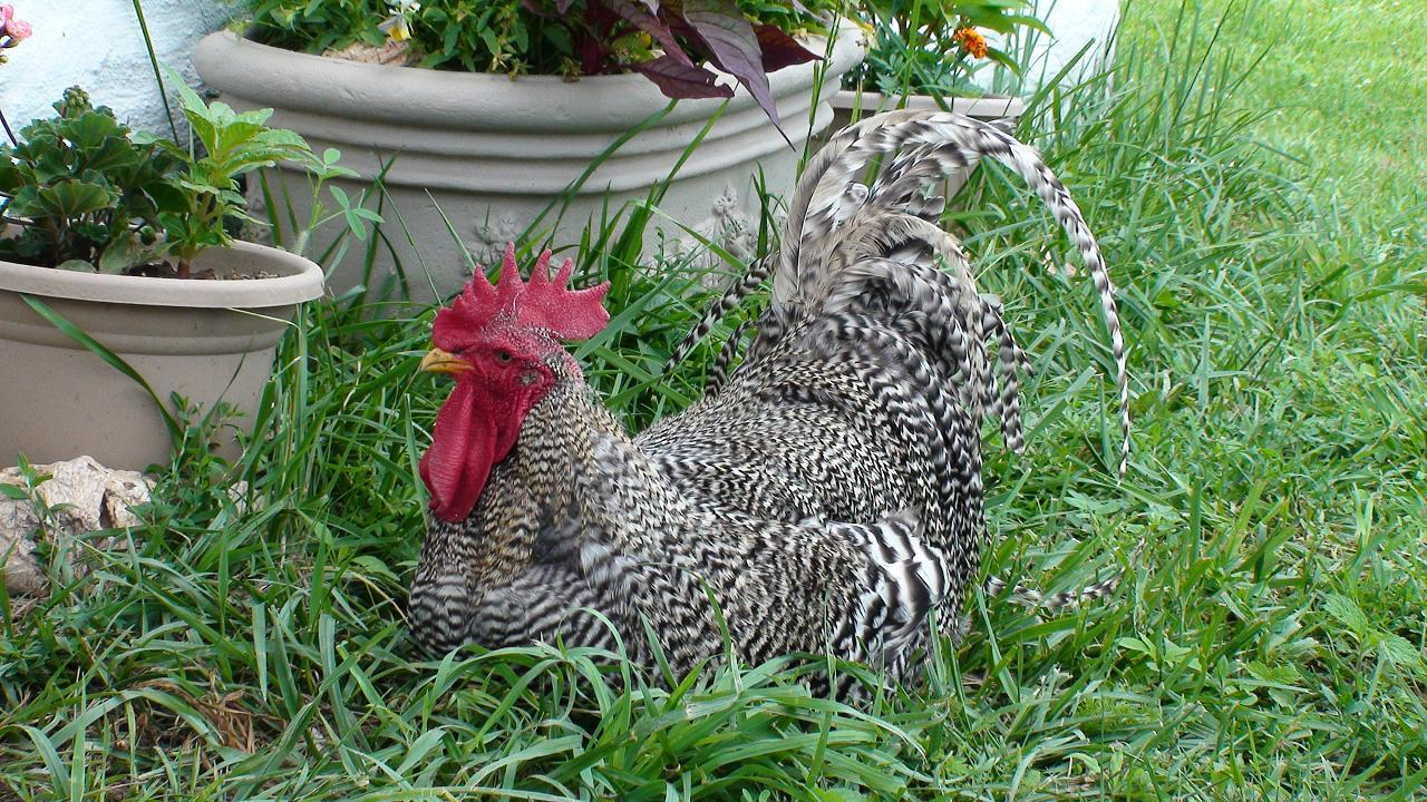 A Barred Plymouth Rock rooster.